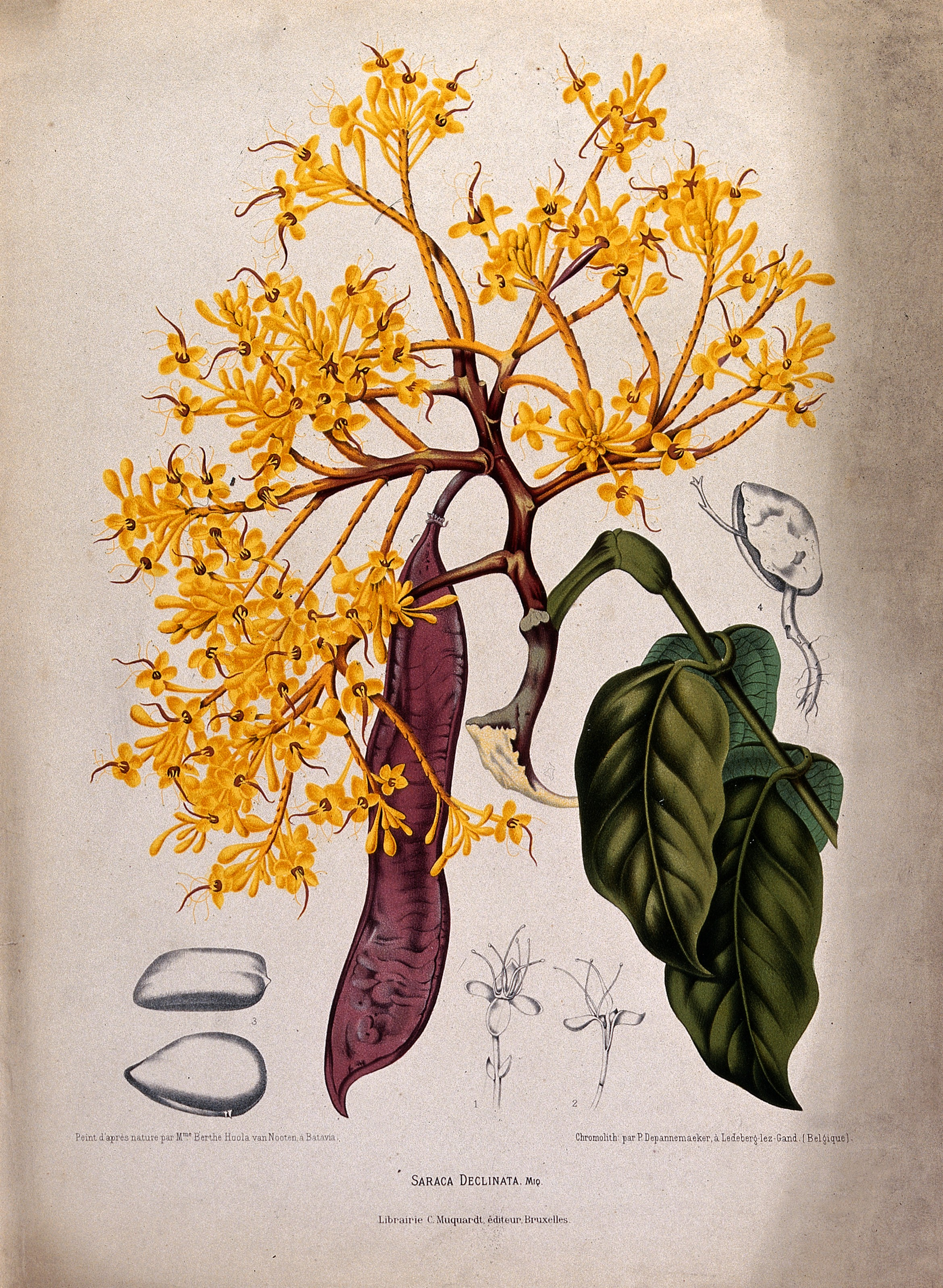 A plant (Saraca declinata Miq.) related to the asoka tree: flowering and fruiting shoot with separate numbered flowers, seeds and germinating seed. Chromolithograph by P. Depannemaeker, c.1885, after B. Hoola van Nooten. Iconographic Collections Keywords: Berthe van Nooten Hoola; tropical plants; botany - java (indonesia); chromolithographs; LEGUMES; Pierre Joseph Depannemaeker; island flora; Flowers; scientific illustrations; plants, useful - java (indones